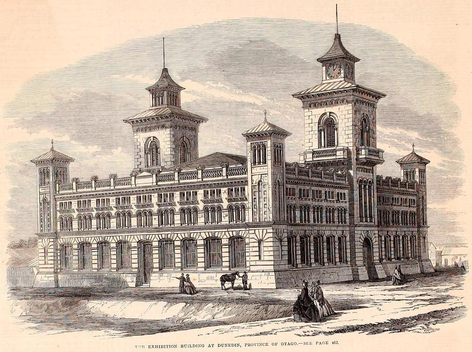 Illustrations of the New Zealand Exhibition, Dunedin, 1865. Includes the Exhibition Building, and two illustrations of the main avenue.